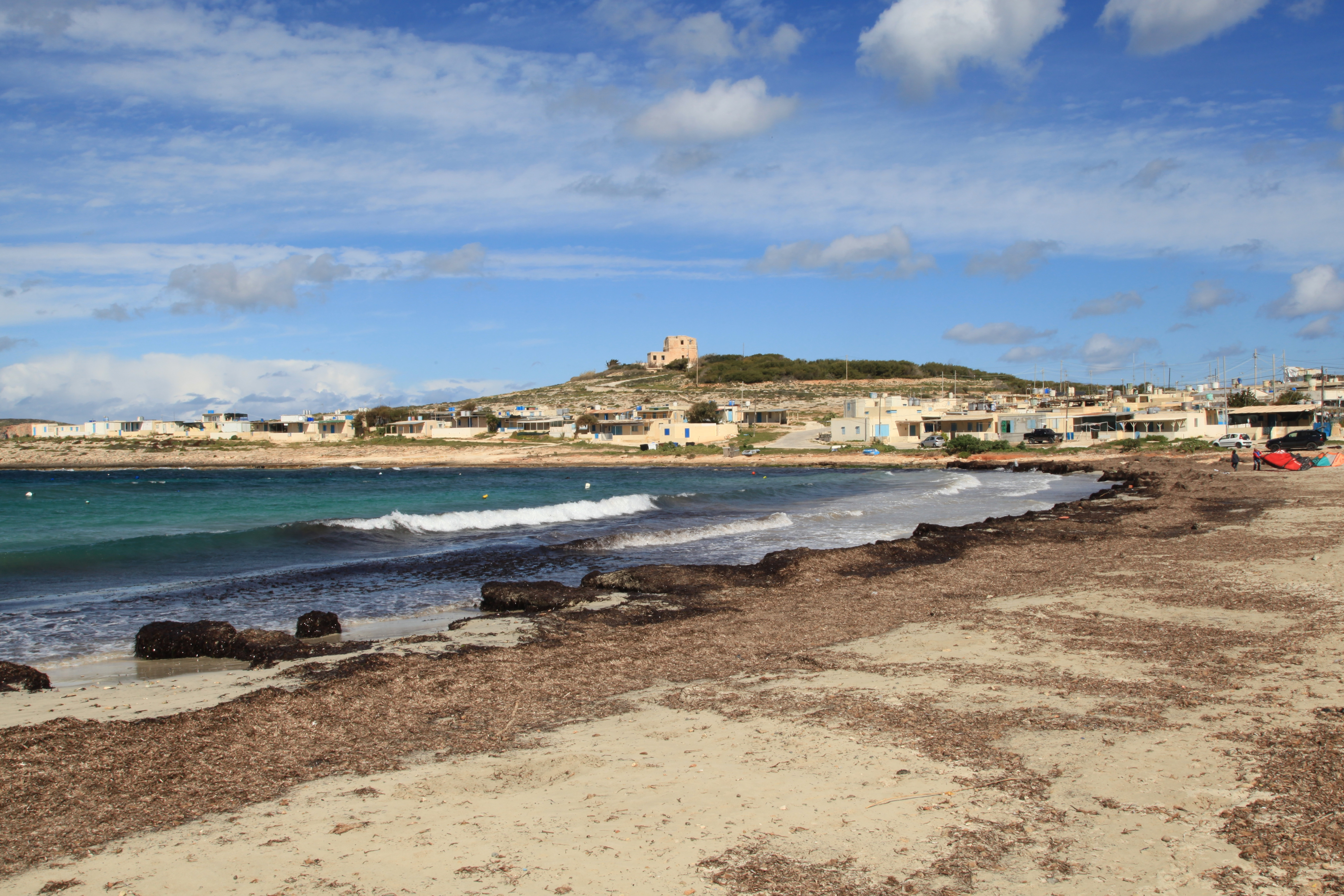 Armier Tower at Triq ir-Ramla tat-Torri l-Abjad in Mellieħa, Malta